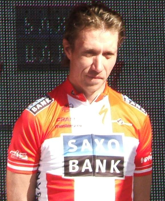 Named cyclist at the en:2009 Tour Down Under team presentation